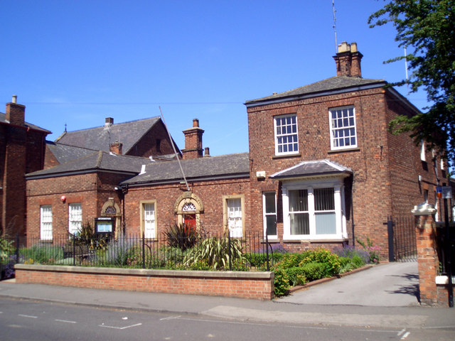 The Old Police Station, High Street. Pevsner says "..the plain POLICE STATION of 1847 by the County Surveyor, J.S.Padley, originally symmetrical and all single-storeyed." For another Police Station by J.S.Padley at Winterton see 201953. For a picture of the new Police Station see 184458.